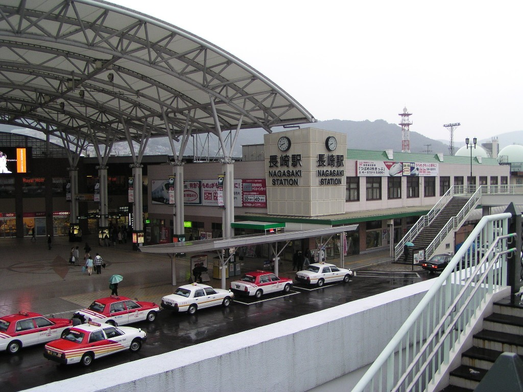 This is a photograph of 長崎駅 (長崎県) and is taken by User:Kouchiumi on March 27, 2005.